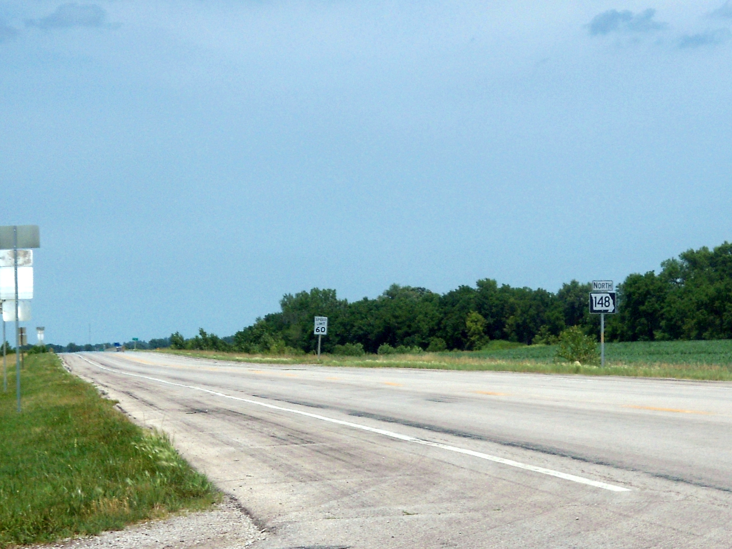 Missouri Route 148 north of the SSR-B junction, Nodaway County.